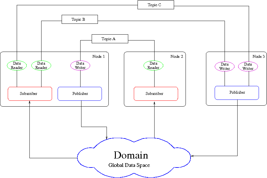 Entities and relations between them in the DDS.